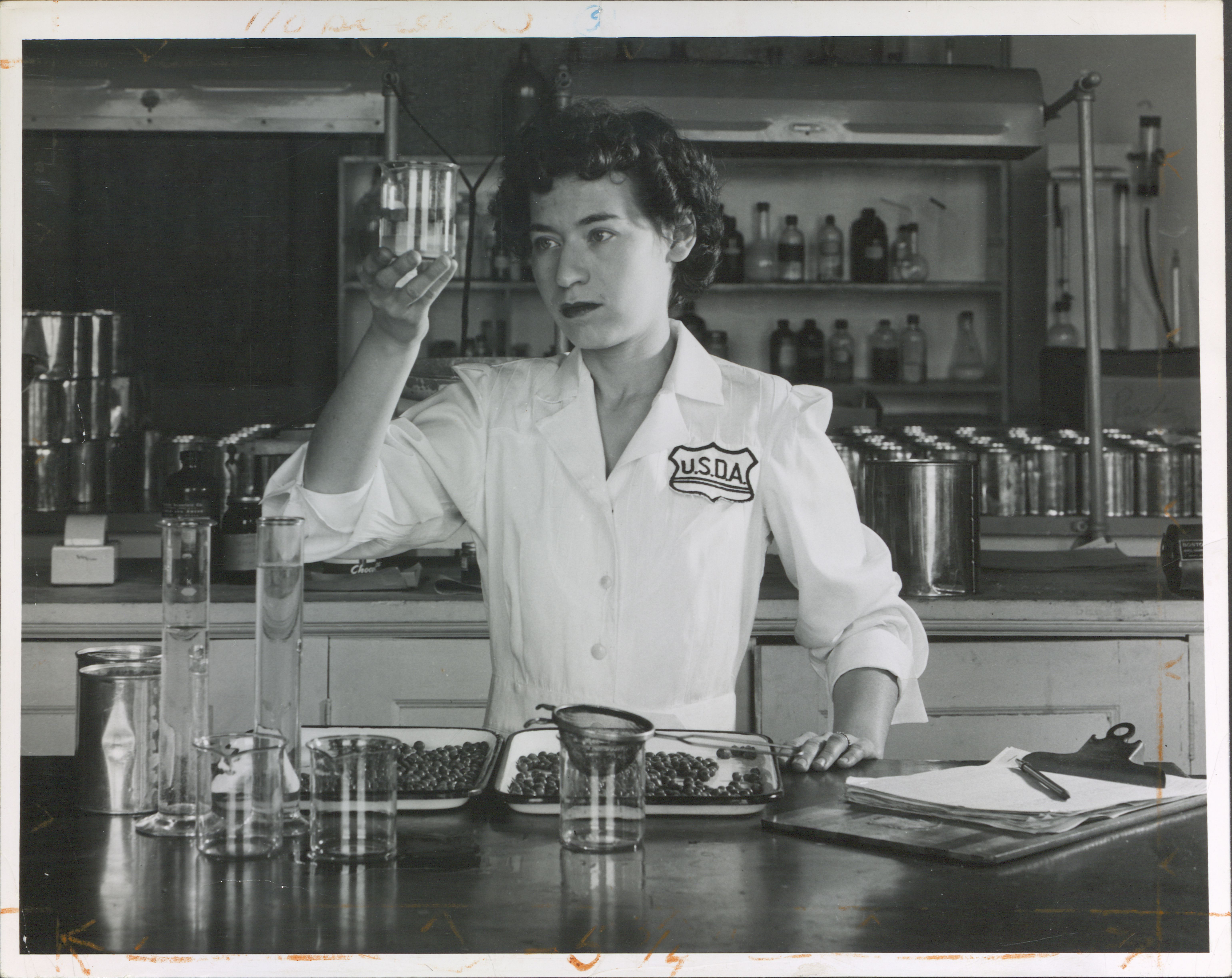 This image was taken between 1936-1963. A researcher at Consumer Reports considers canned peas. original file name - 1 7 General 1936-1963-0242